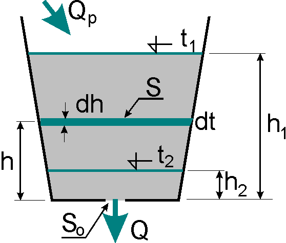 filling of a reservoir - computational scheme